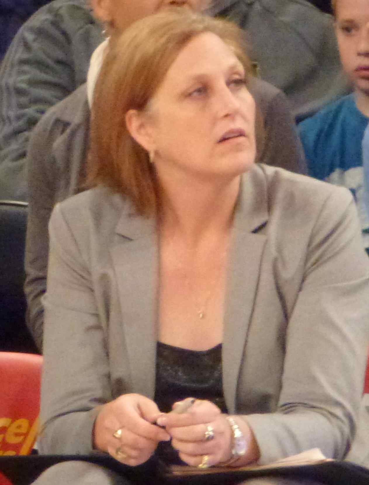 Katy Steding, Cal Assistant coach and member of Stanford 1990 NCAA D1 National Championship women's basketball team. Taken at the 2013 Maggie Dixon Classic held in Madison Square Garden 22 December 2013